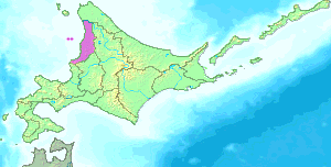 Rumoi shinkokyoku subpref